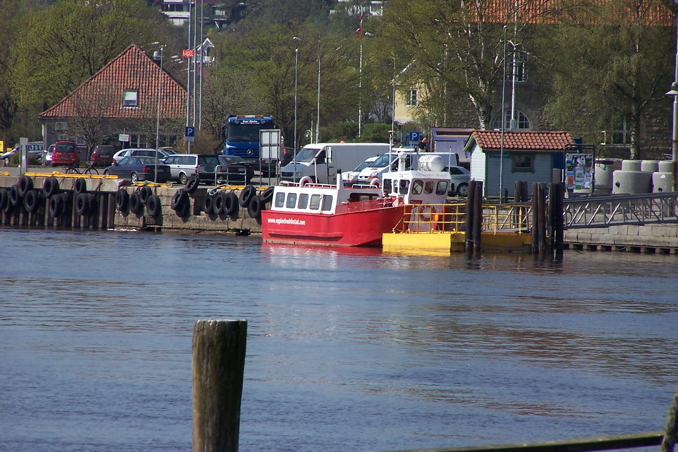 Passenger ferry Go'Vakker Randi in Fredrikstad, Norway. The ferry transports people across the River Glomma between the eastern and western parts of the city. Cap. 60 passengers + 1 crew.